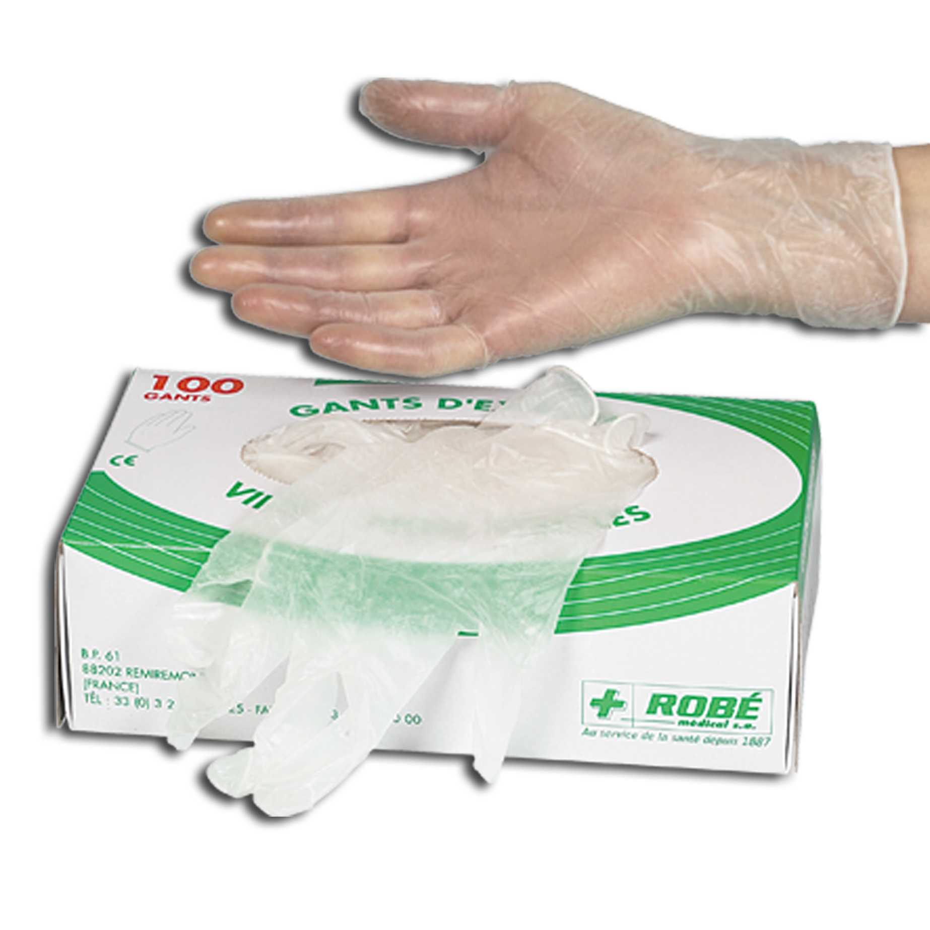 medical examination gloves